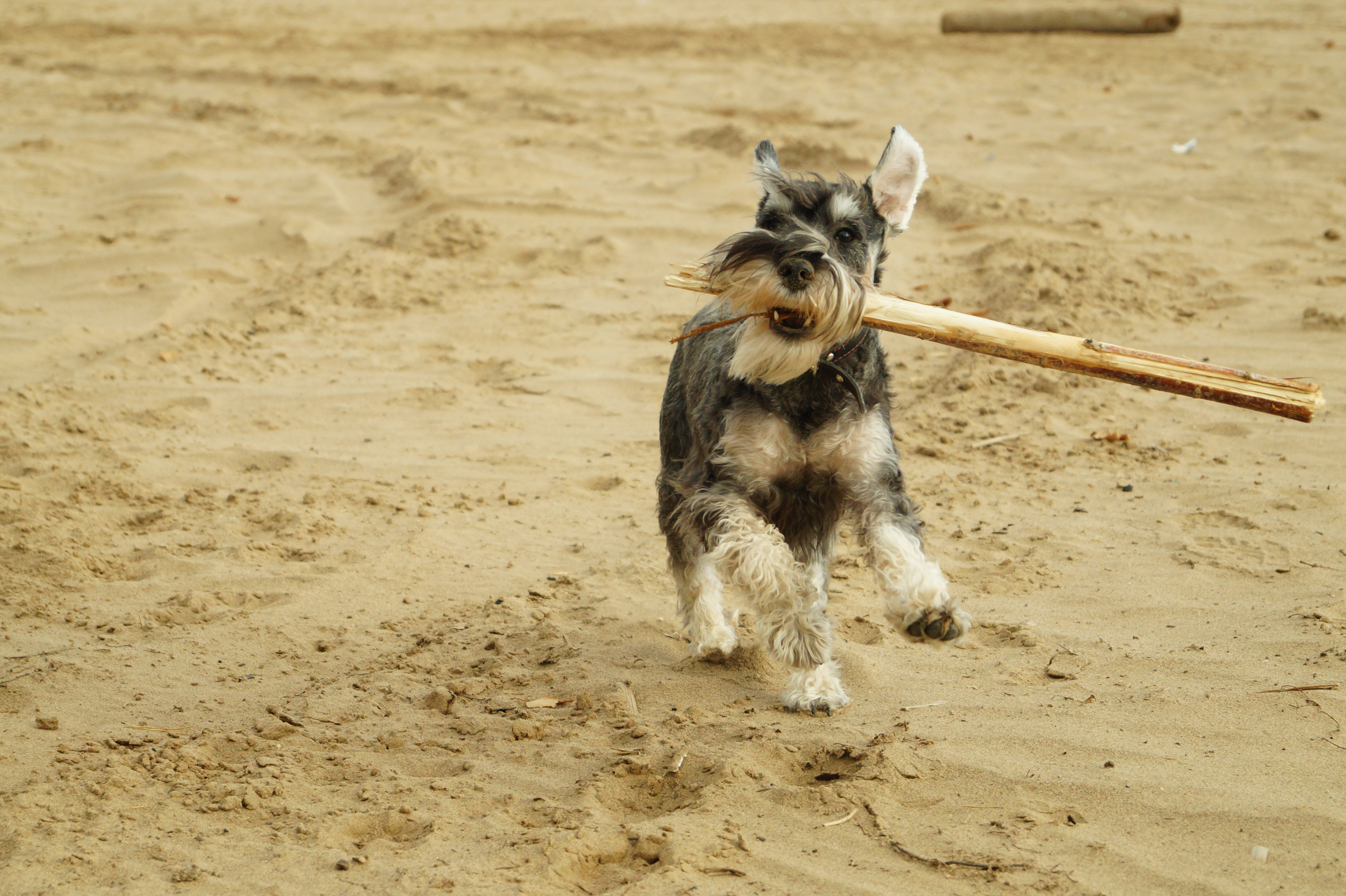 Young Zwergschnauzer